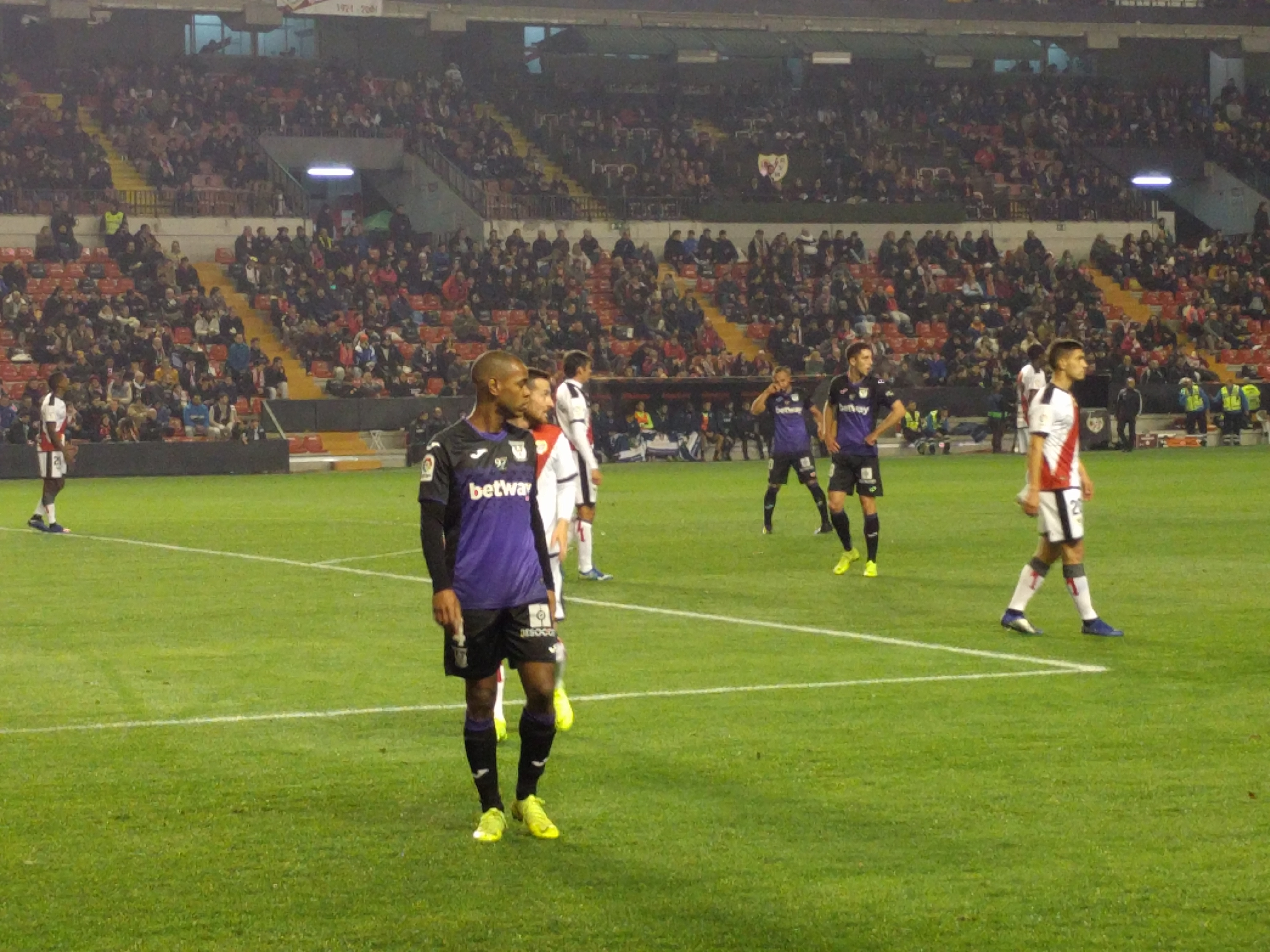 Diego Rolan in the match of Copa del Rey Rayo 0:1 Leganés, December 4th 2018